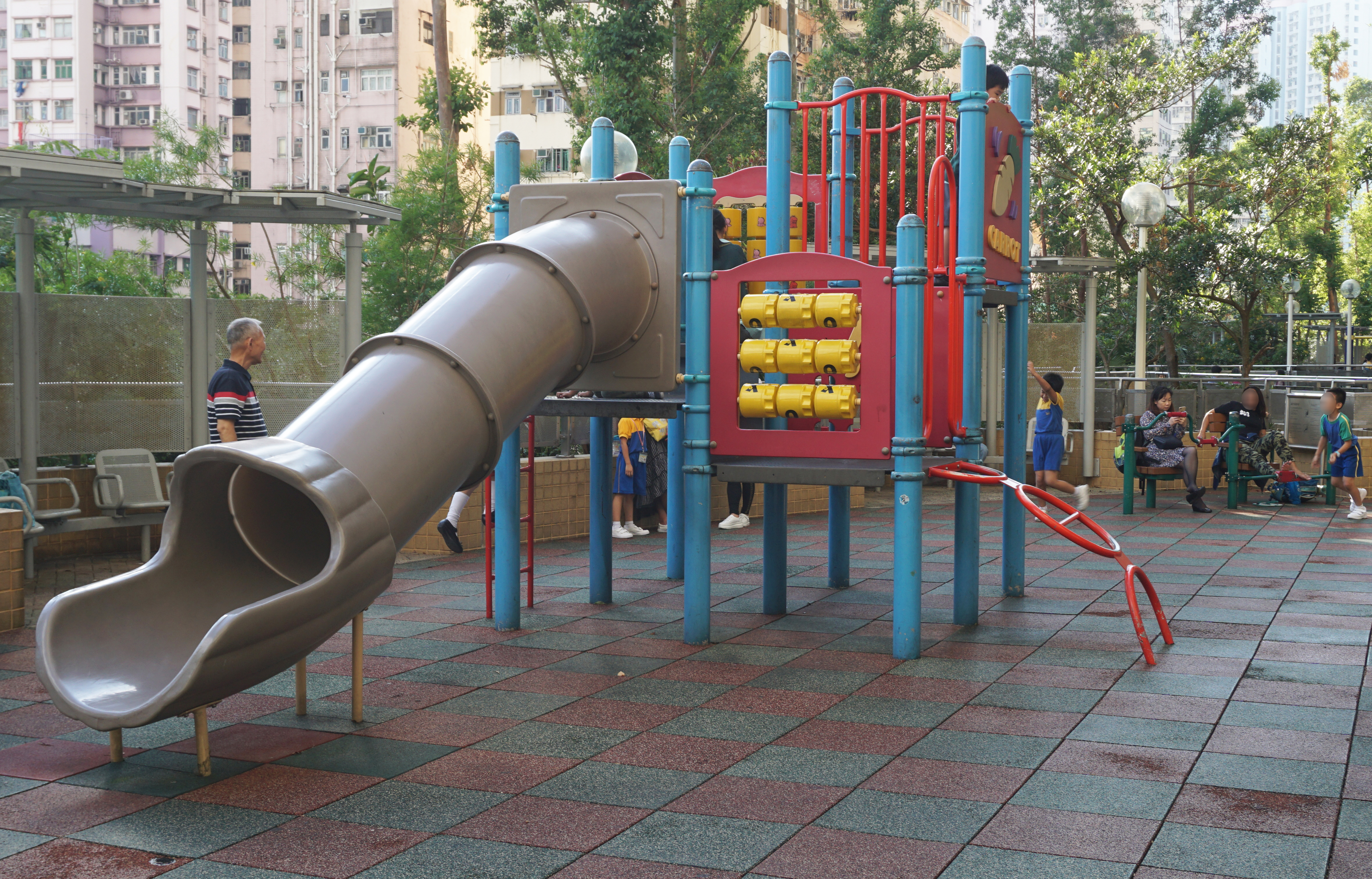 Tsz Hong Estate in Tsz Wan Shan, Hong Kong.